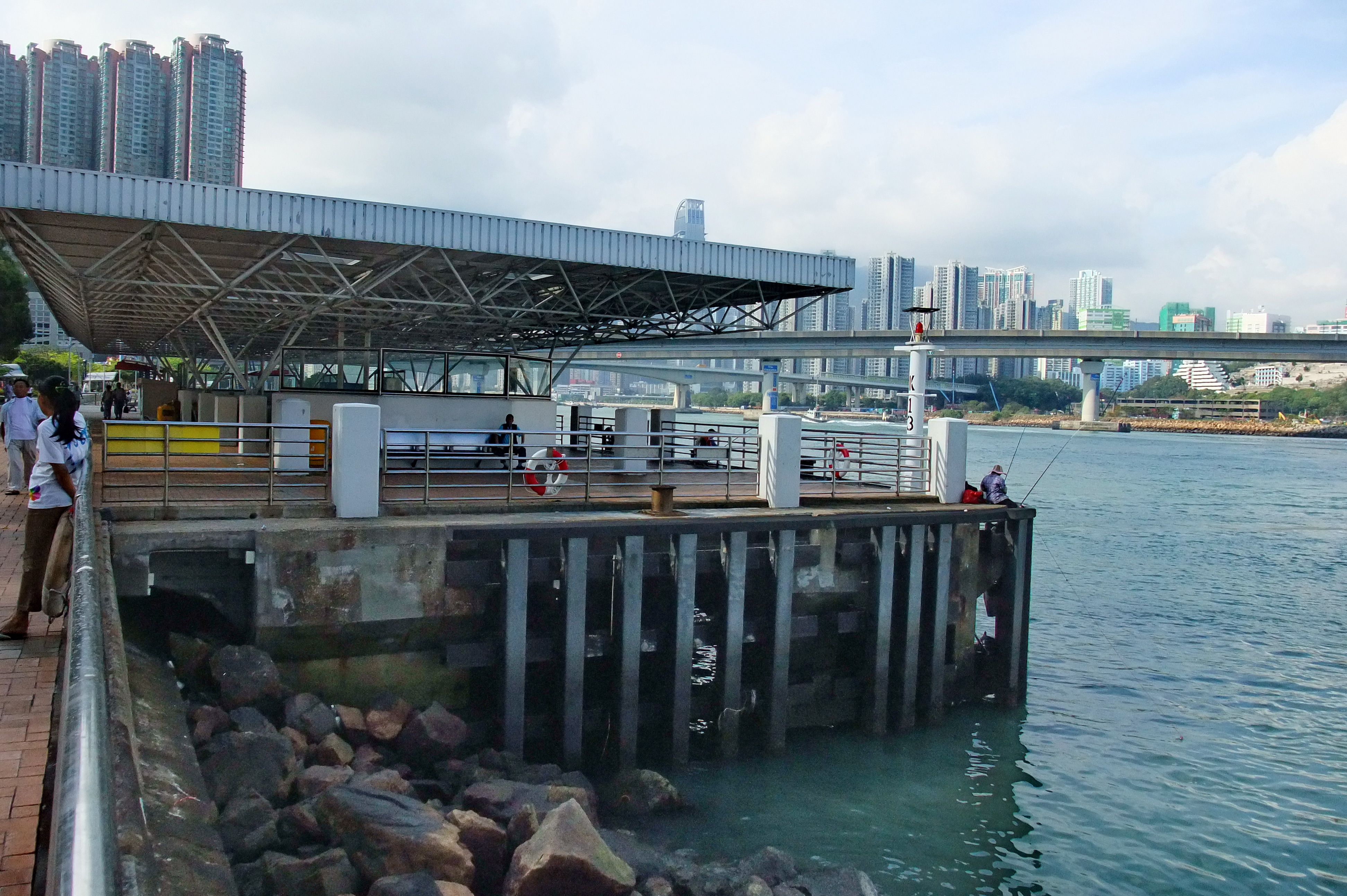 Tsing Yi Pier, Hong Kong.